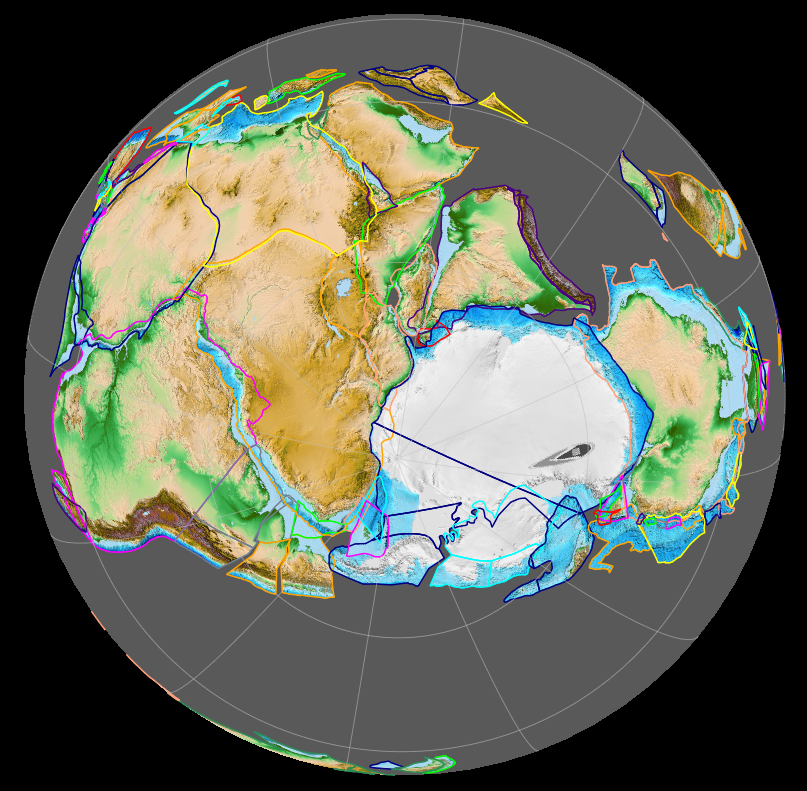 Gondwana at 420 Ma. View centred on the South Pole.